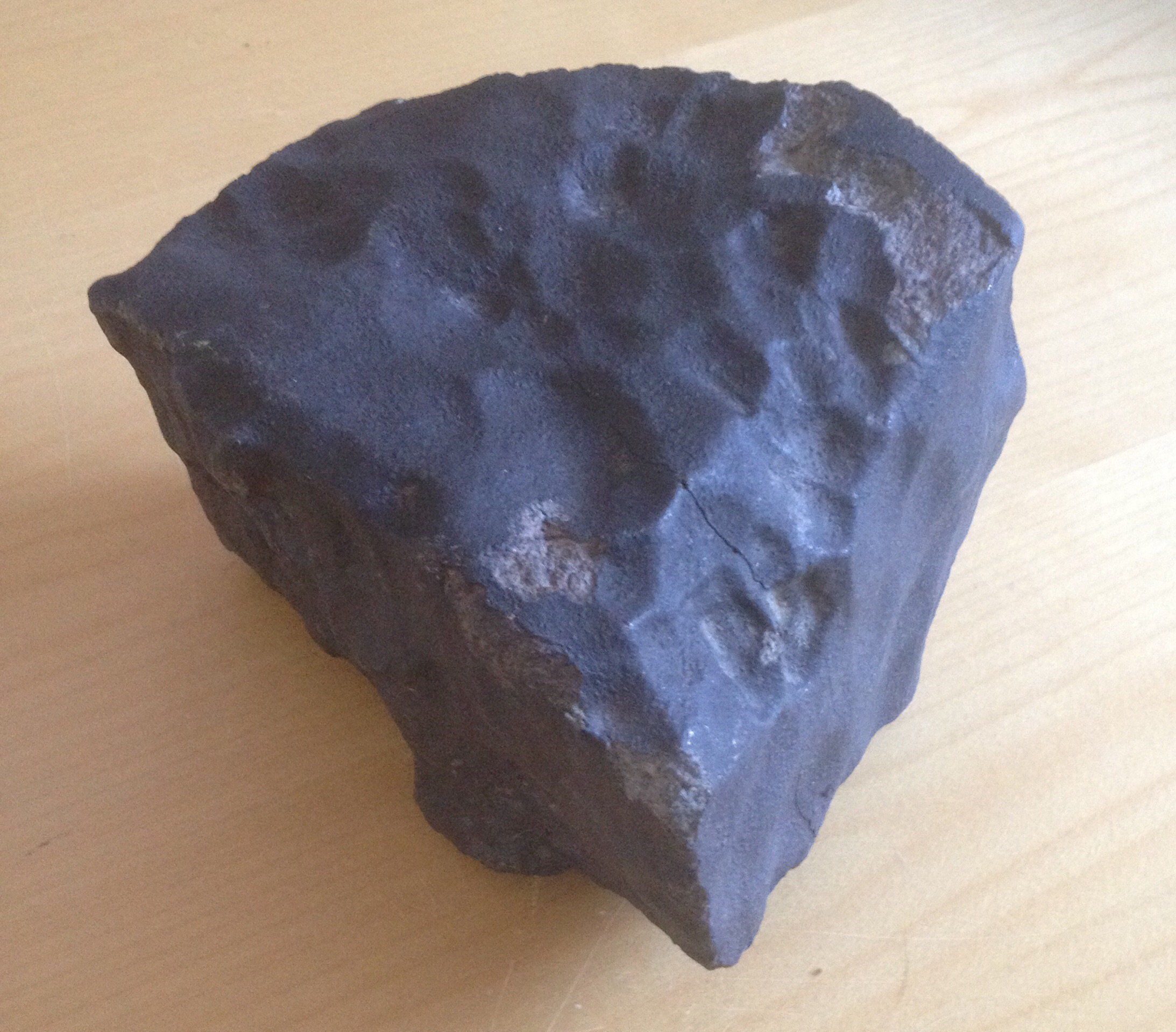 This is a picture I have been taken myself of the Ekeby meteorite at Lunds University.